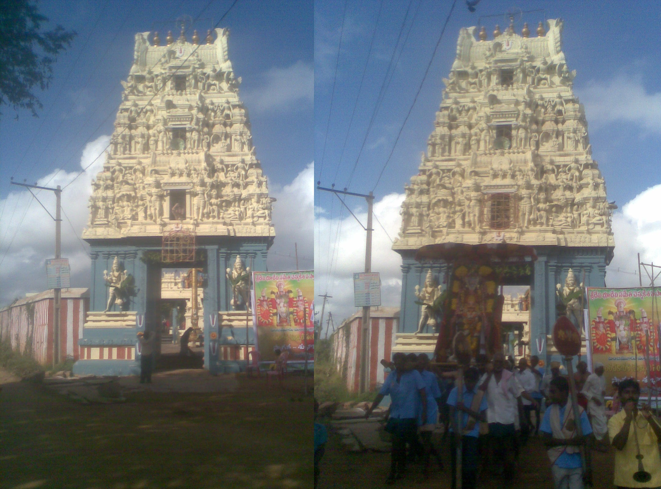 Sri Chennakesava Swami Temple Vinjamur